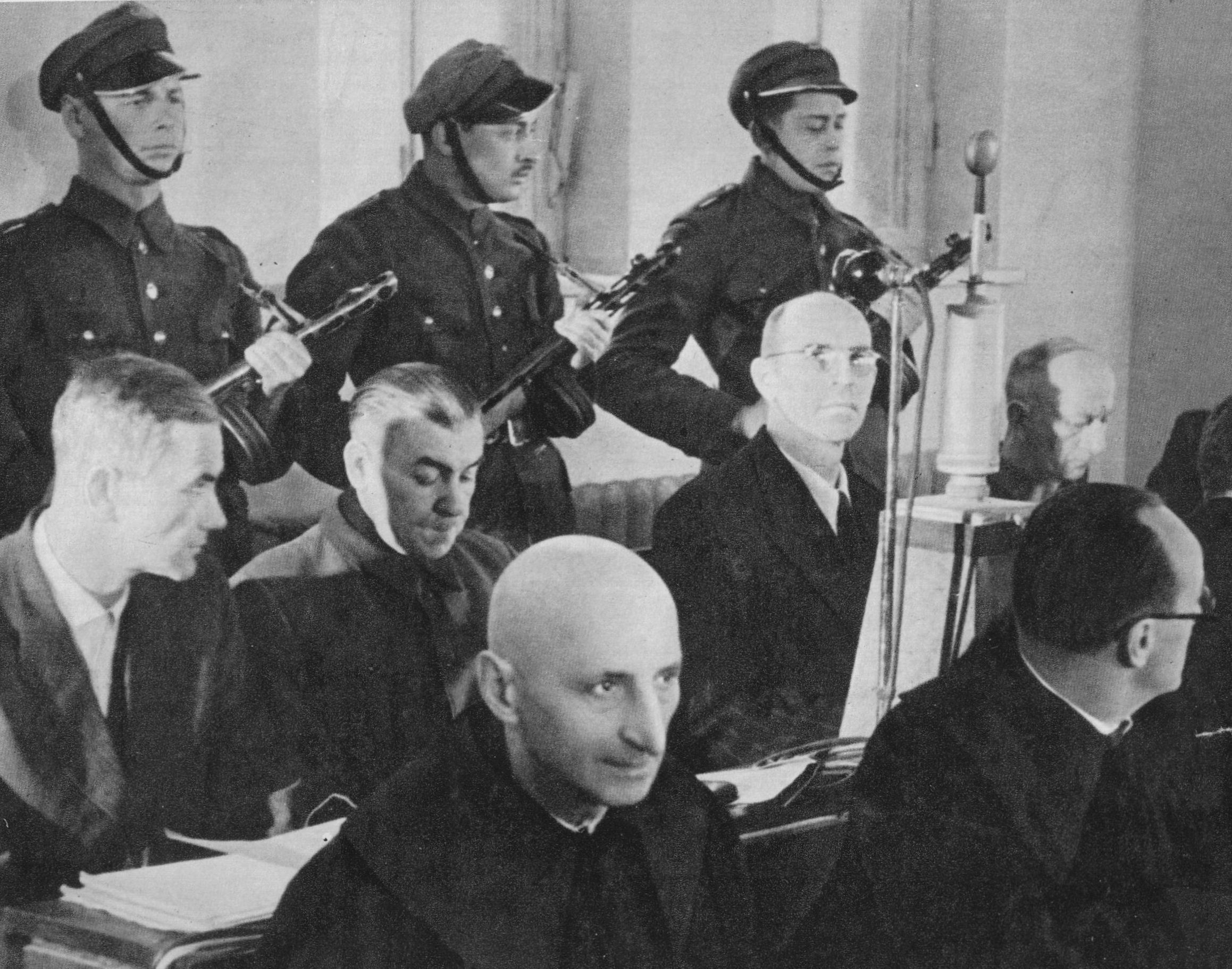 Trial of Ludwig Fischer before the Supreme National Tribunal in Warsaw. From the left in second row: Ludwig Fischer, Ludwig Leist, Josef Meisinger and Max Daume